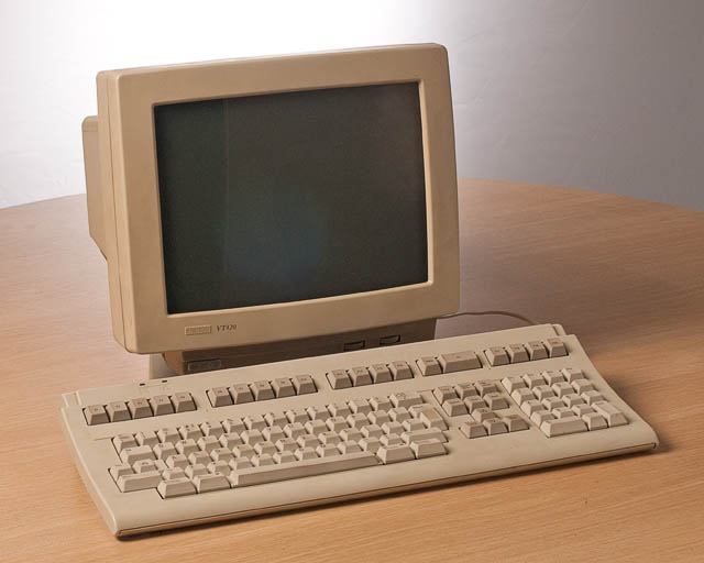 DEC VT420 terminal